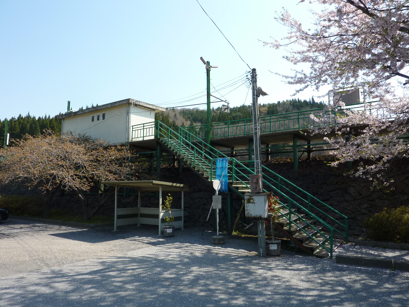 Horei Station on Sanriku Railway Minami Riasu Line, in Sanrikucho-Kirai, Ofunato City, Iwate Prefecture, Japan